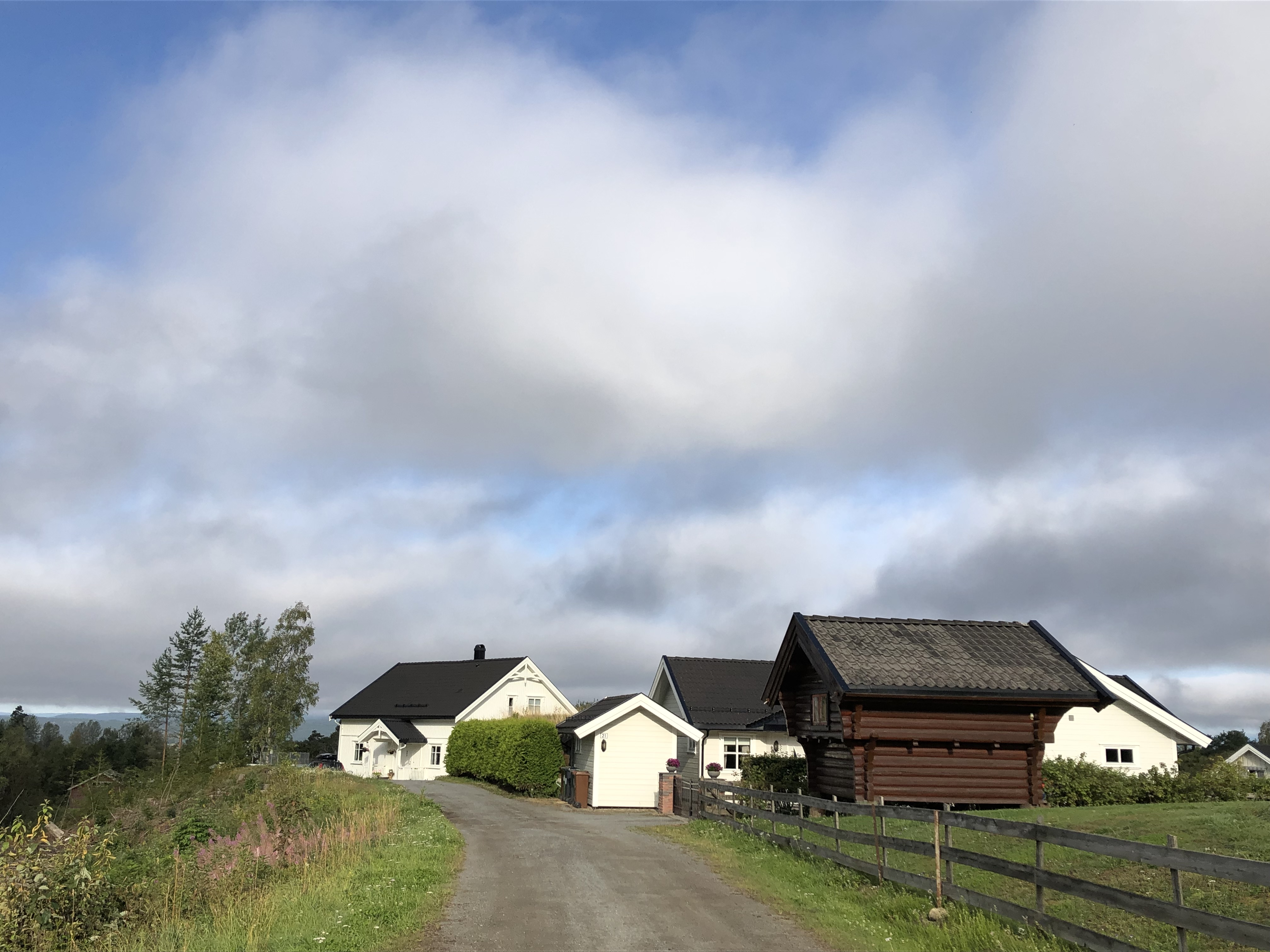 Andersløkkeveien, Ringerike, Norway.